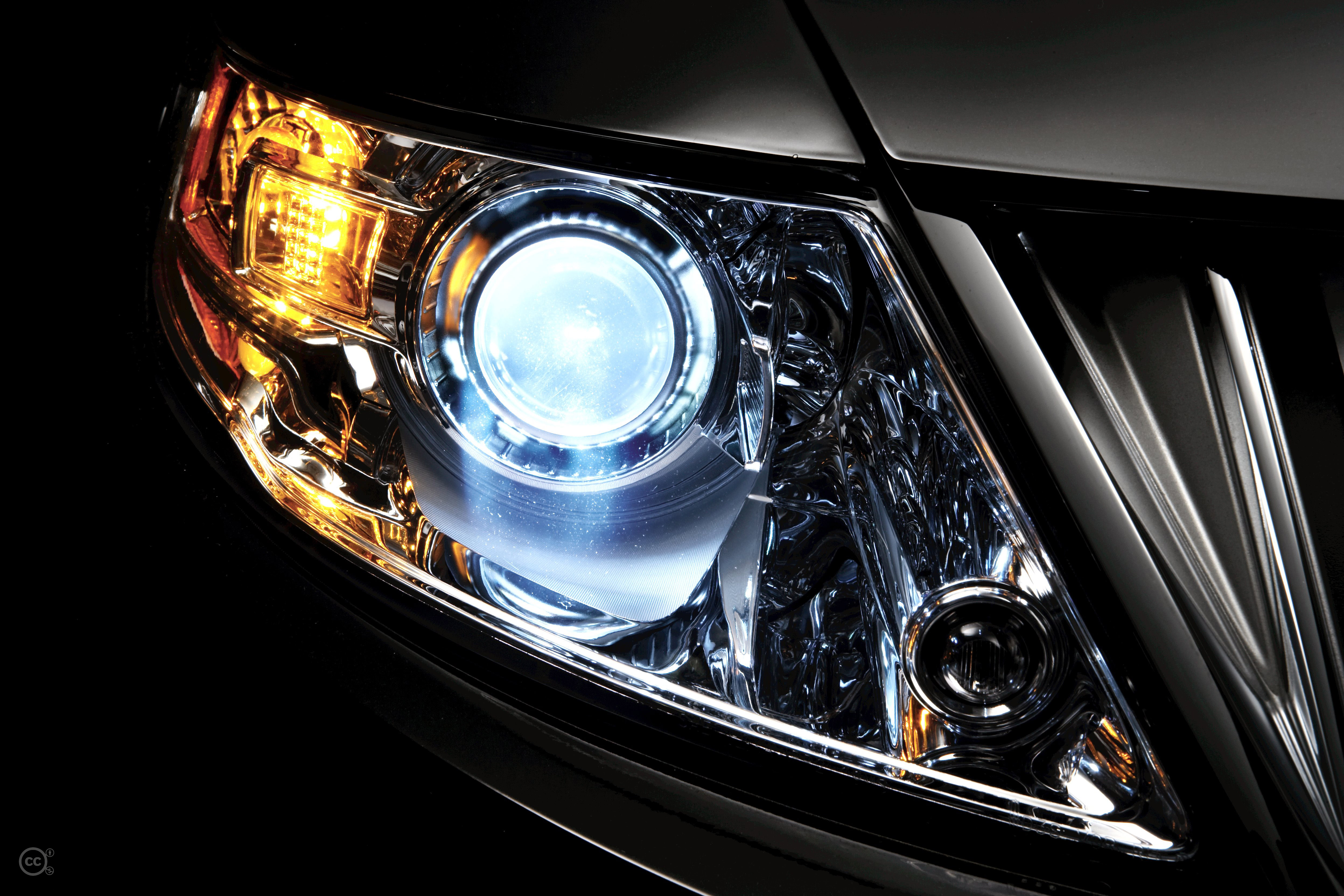 2009 Lincoln MKS: Adaptive Headlamps with Standard High-Intensity Discharge (HID) Lamps enhance nighttime visibility by illuminating more of the road and reducing glare from oncoming traffic. Sensors monitor vehicle speed and steering wheel input engaging electric motors that pivot the left headlamp up to five degrees and the right headlamp up to 15 degrees to increase the driver’s field of vision.